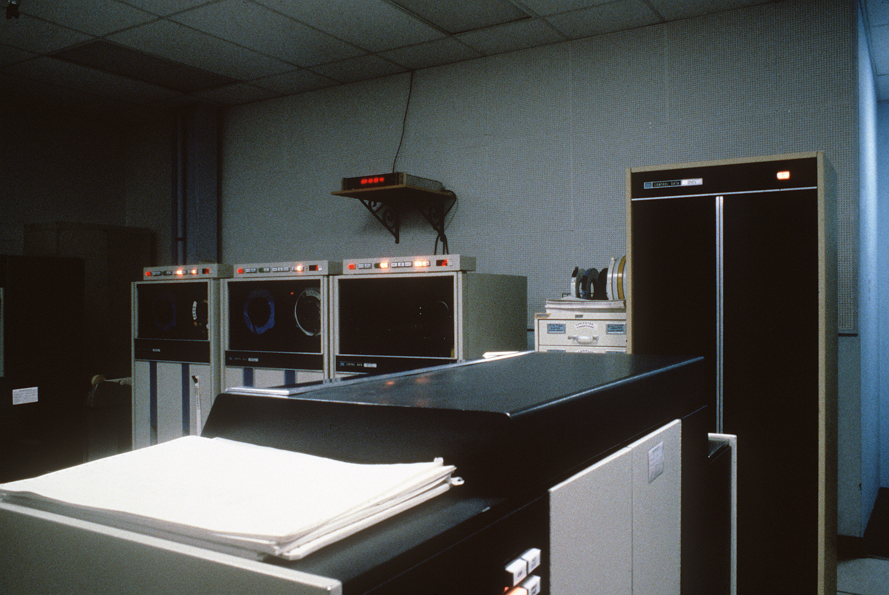 The computer room for the Cobra Dane radar system operated by the 16th Surveillance Squadron. Location: SHEMYA AIR FORCE BASE, ALASKA (AK) UNITED STATES OF AMERICA (USA)